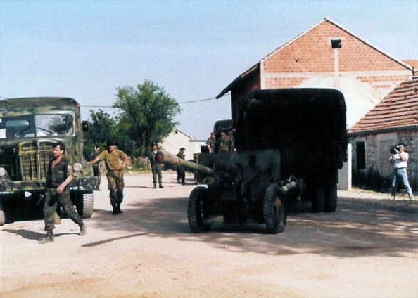 The Serb cannon and truck captured in Siritovci by the Croatian Army.